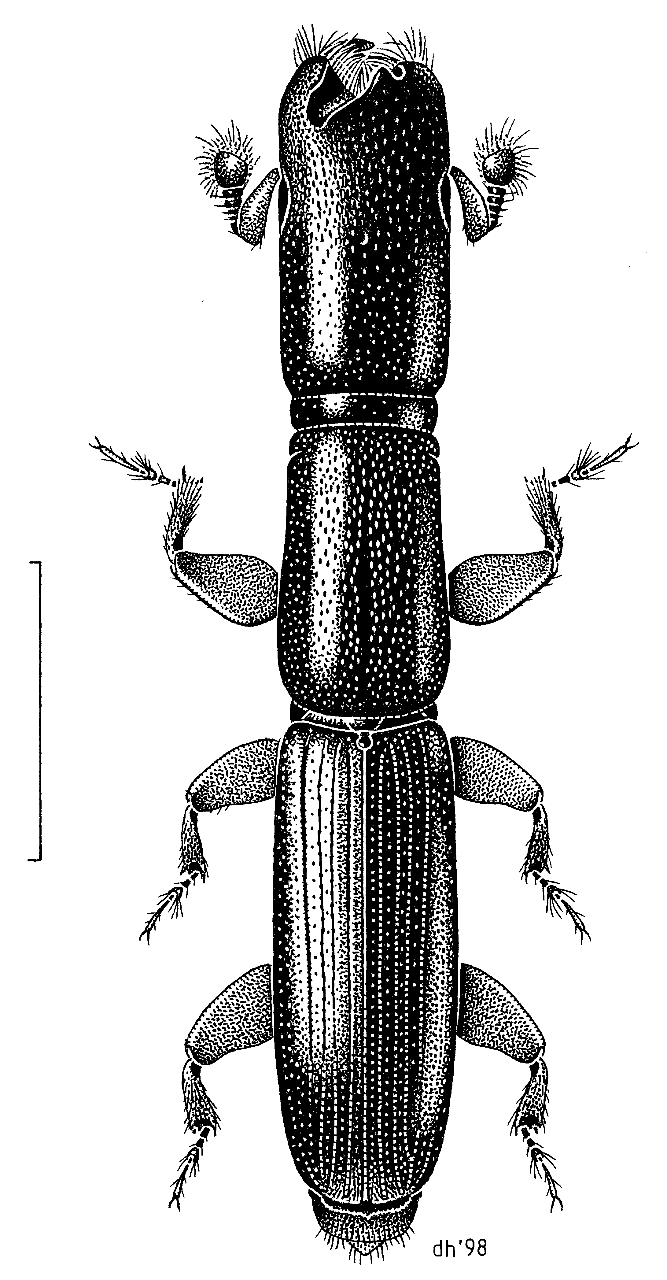 (Coleoptera: Curculionidae) Dissostomus hornabrooki illustrated by Des Helmore.